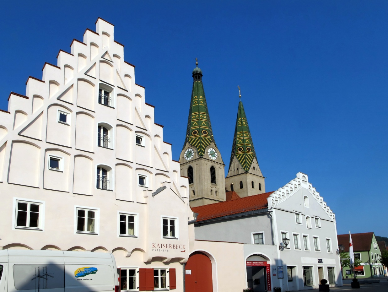 City of "Beilngries": historic patrician houses